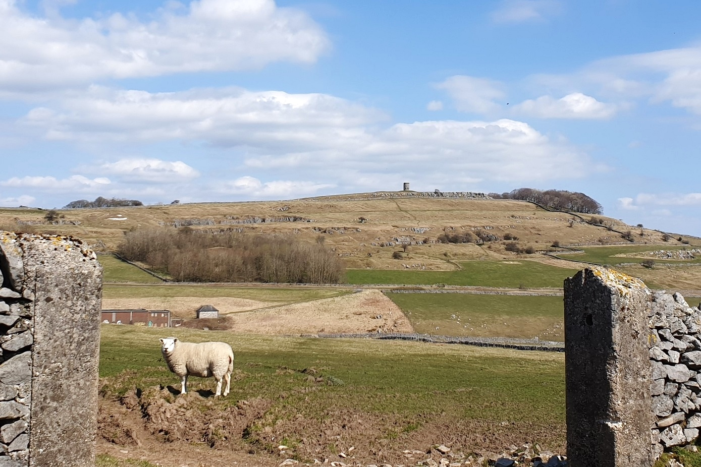 View from the South of Grin Low Hill near Buxton